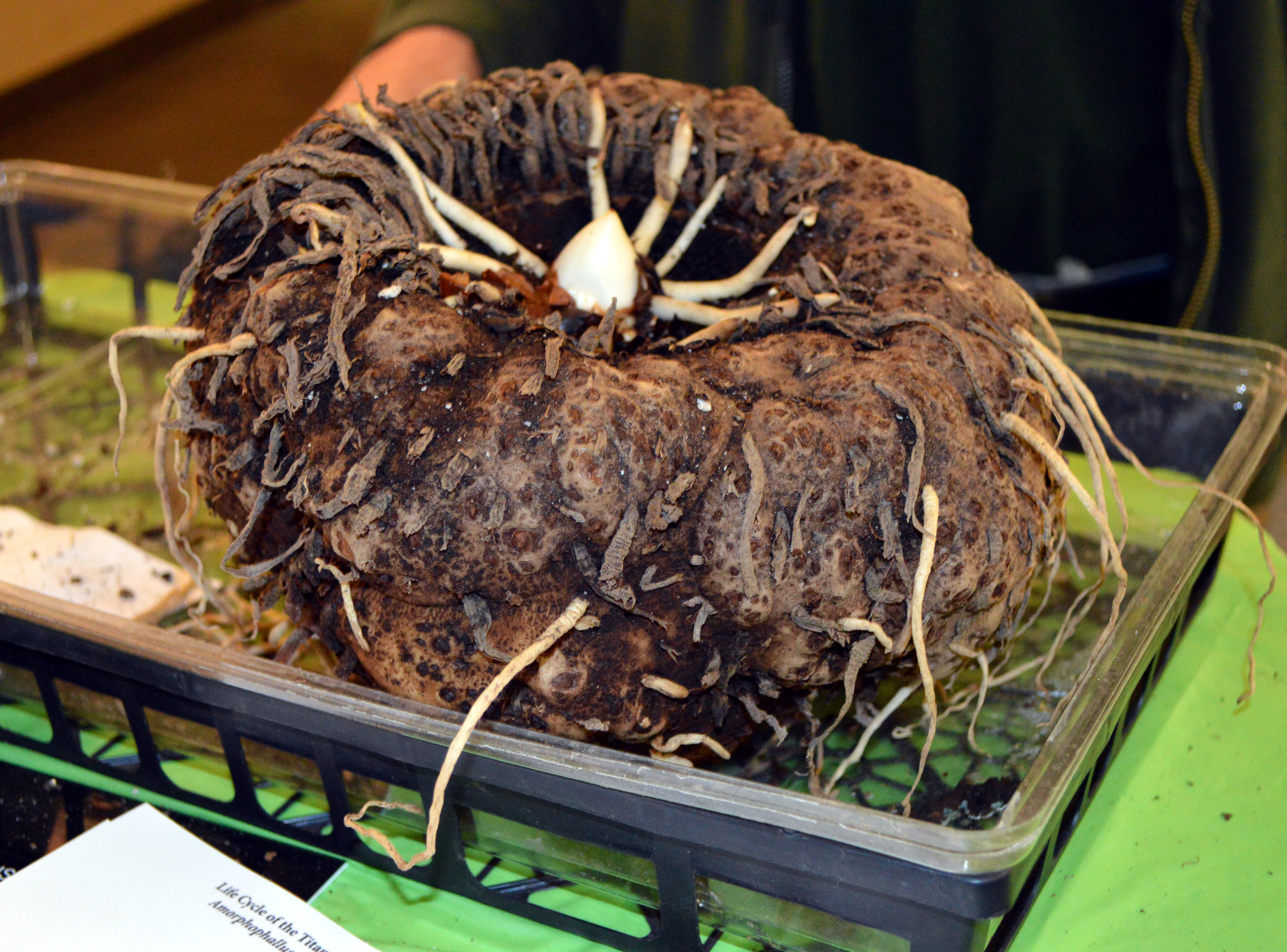 Corm of Amorphophallus titanum displayed at Muttart Conservatory, Edmonton, Alberta.